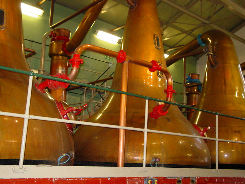 Single Malt Scotch still at the Lagavulin distillery on Islay in Scotland.